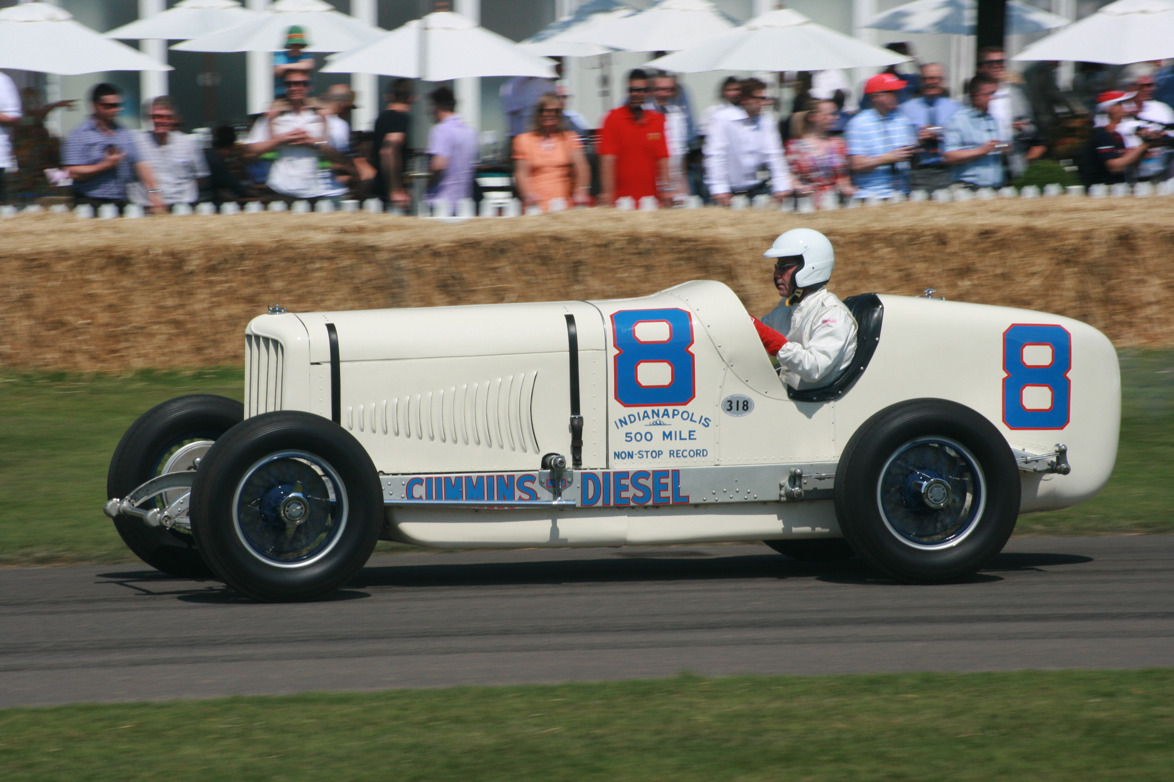 Duesenberg 'Cummins Diesel Special' 1931, originally driven in the 1931 Indianapolis 500 by Dave Evans.